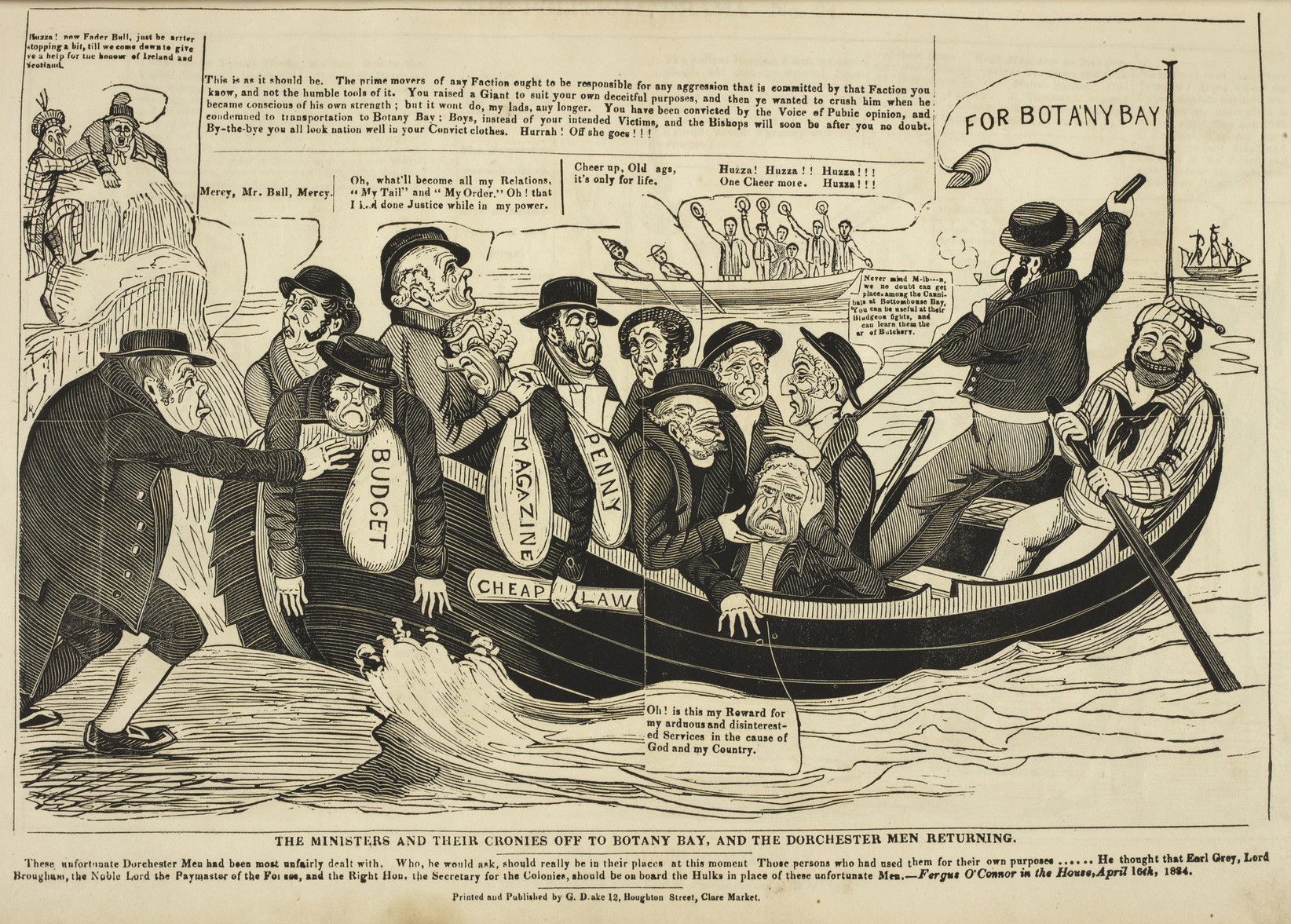 'The Ministers and their cronies off to Botany Bay, and the Dorcester men returning'. Politicians in tears on a boat, going away from the shore; free Dorchester Unionists on another boat, getting closer to the shore. At the bow is a flag reading 'FOR BOTANY BAY'. The two oarsmen guide the boat towards a ship from which is returning another boat, containing two oarsmen and the six Tolpuddle Martyrs. Among the politicians are Lord Chancellor Brougham, with two money-bags marked 'PENNY' and 'MAGAZINE', and holding a rolled-up paper reading 'CHEAP LAW'. Brougham is being comforted by Lord Melbourne. The Chancellor of the Exchequer Viscount Althorp, has a sack bearing the word 'BUDGET'. The Duke of Wellington declaims 'Never mind M-lb-n, we no doubt can get places among the Cannibals at Bottomhouse Bay. An Irishman and a Scotsman look on, while John Bull addresses the politicians.